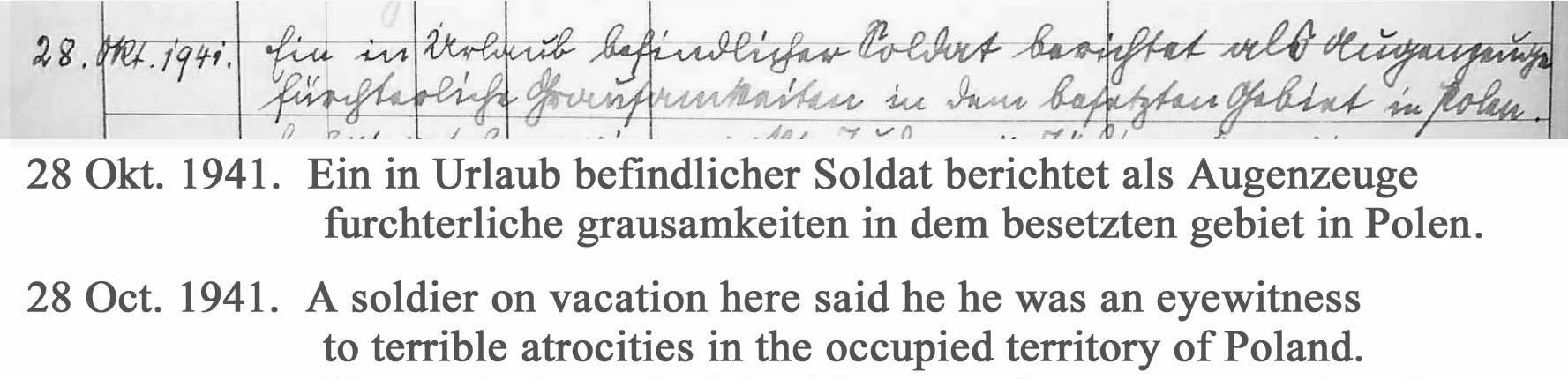 Part of the October 28, 1941, entry, with transcription of the Suetterlin handwriting into modern lettering, and with the English translation of those lines.